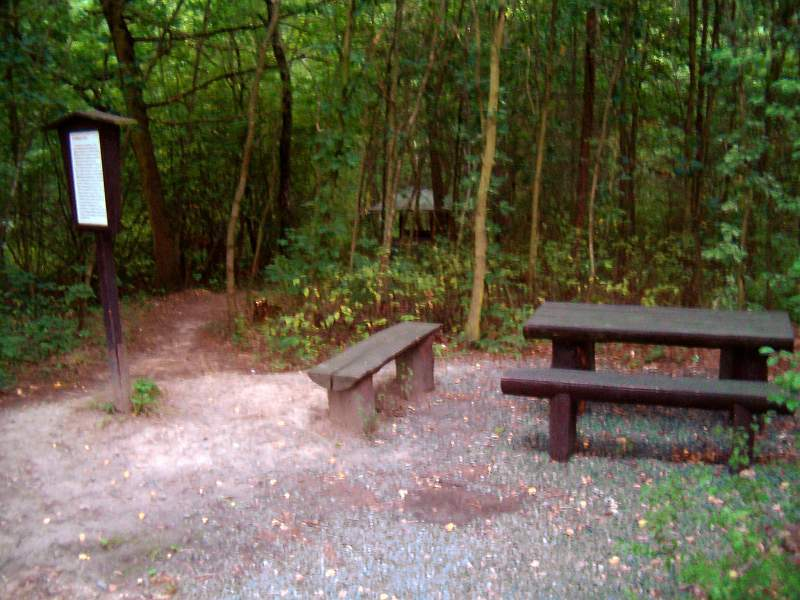 Německá Lhota, a deserted medieval village near Kamenné Žehrovice, Kladno Dtrict, Czech republic. A stage of Drvota's Educational Trail.